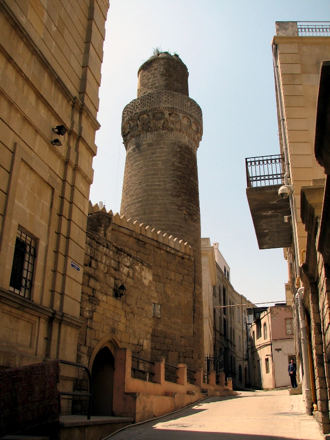 Walled City of Baku